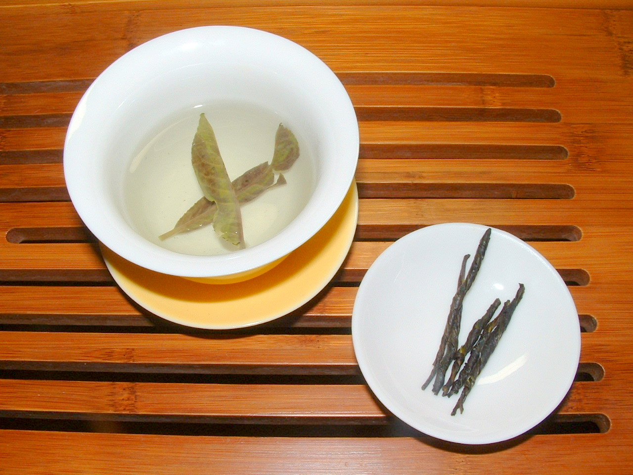 Kudingcha